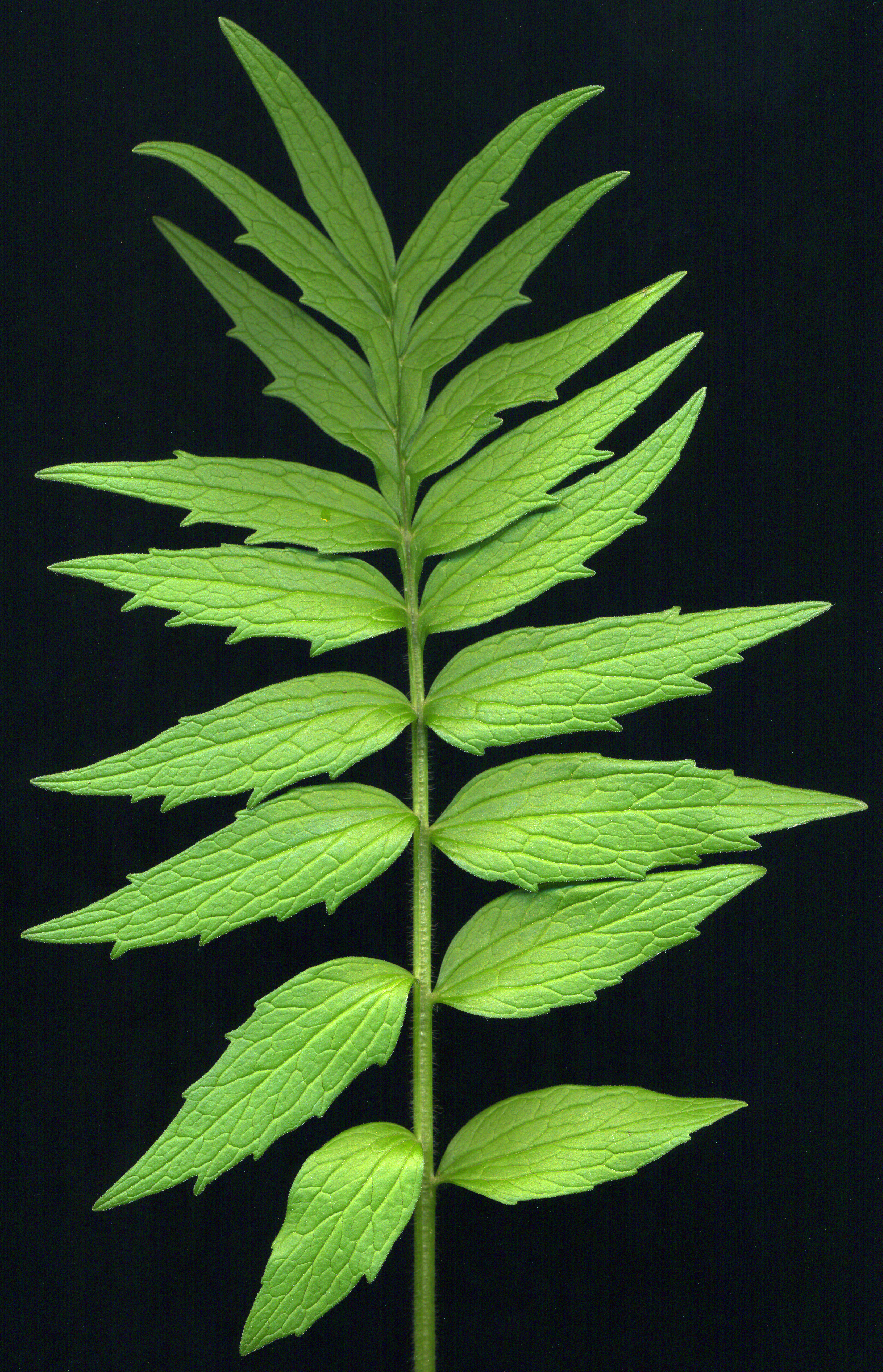 Valeriana officinalis leaf